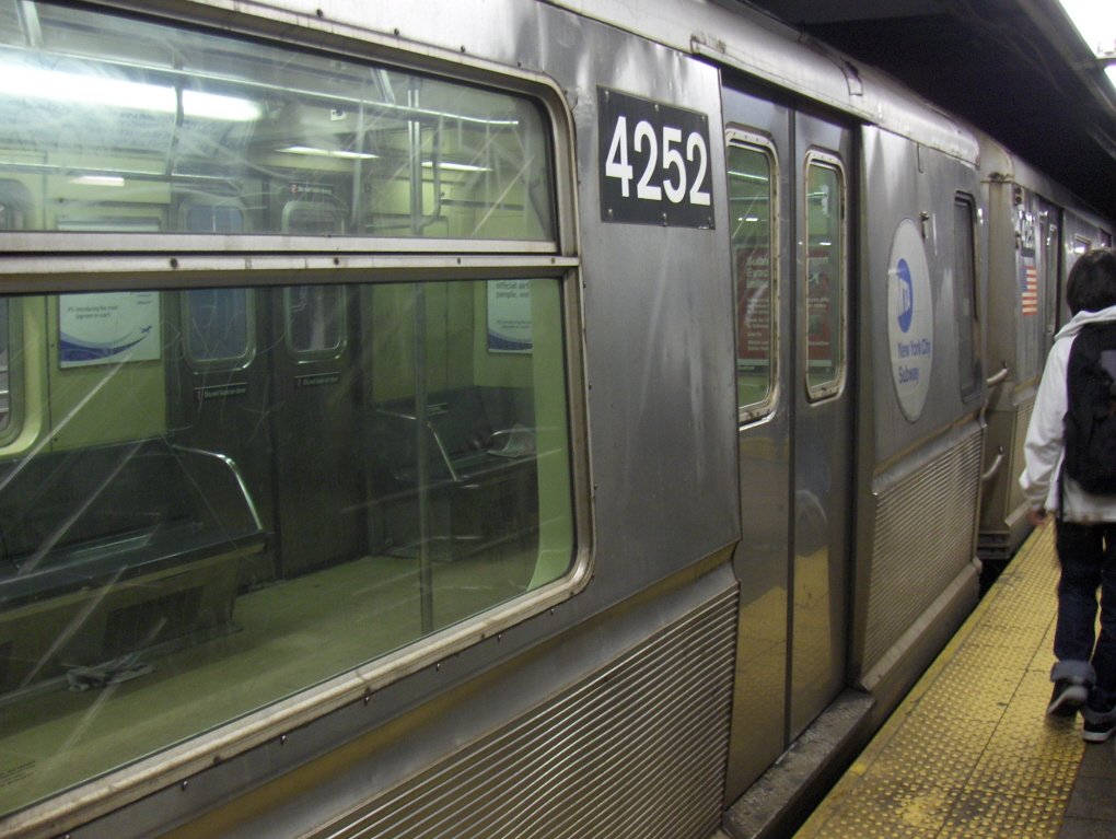 R40 W train at Whitehall Street